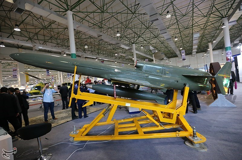 Karrar UAV seen at the 8th International Iran Air Show on Kish Island in the Persian Gulf.